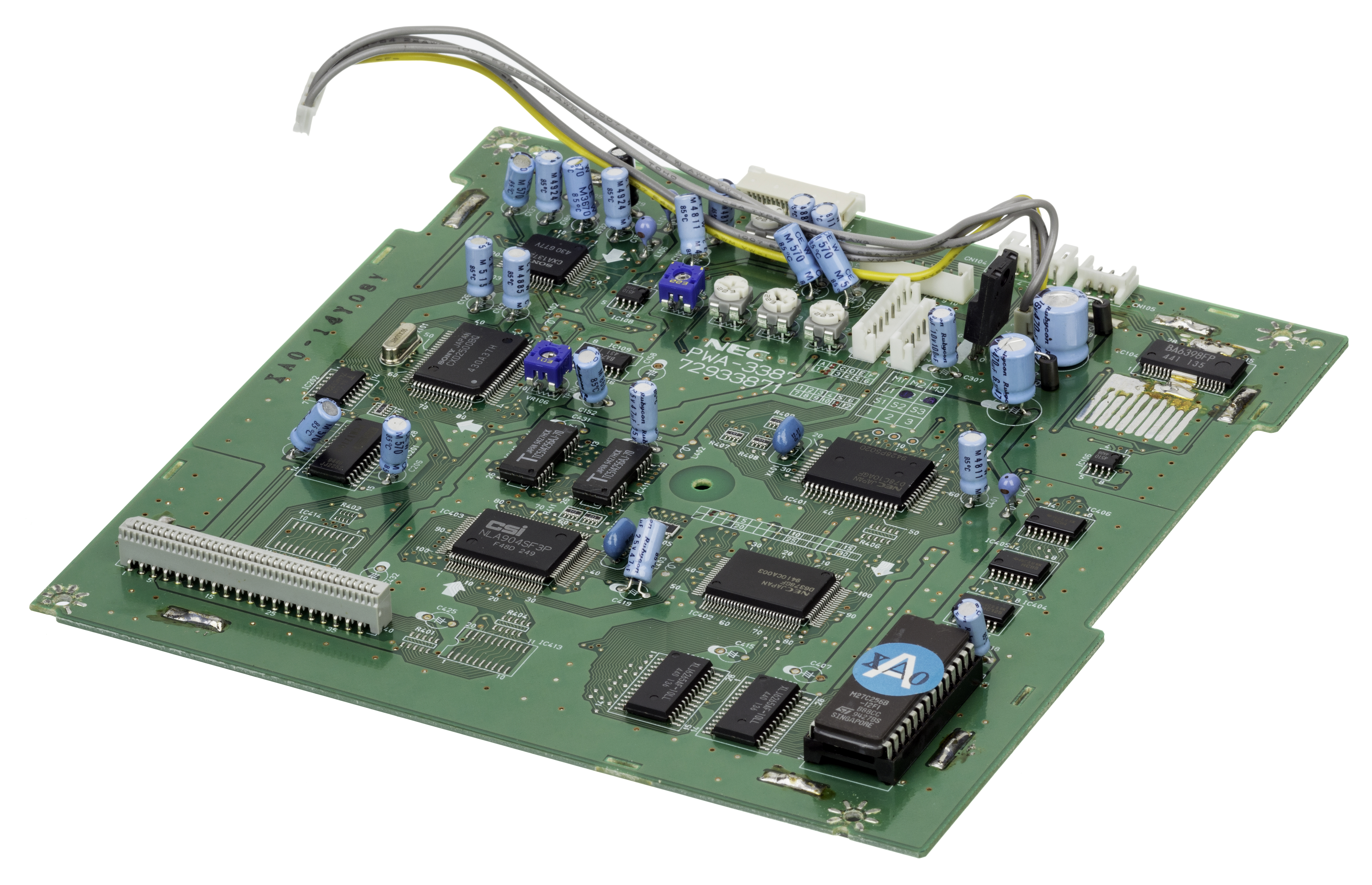 The PC-FX, a fifth-generation gaming console by NEC. Released only in Japan in 1994, the PC-FX was an unsuccessful follow-up to the PC Engine console line. It was a CD-based system whose design was reminiscent of a PC tower. This picture shows the daughterboard of the system.